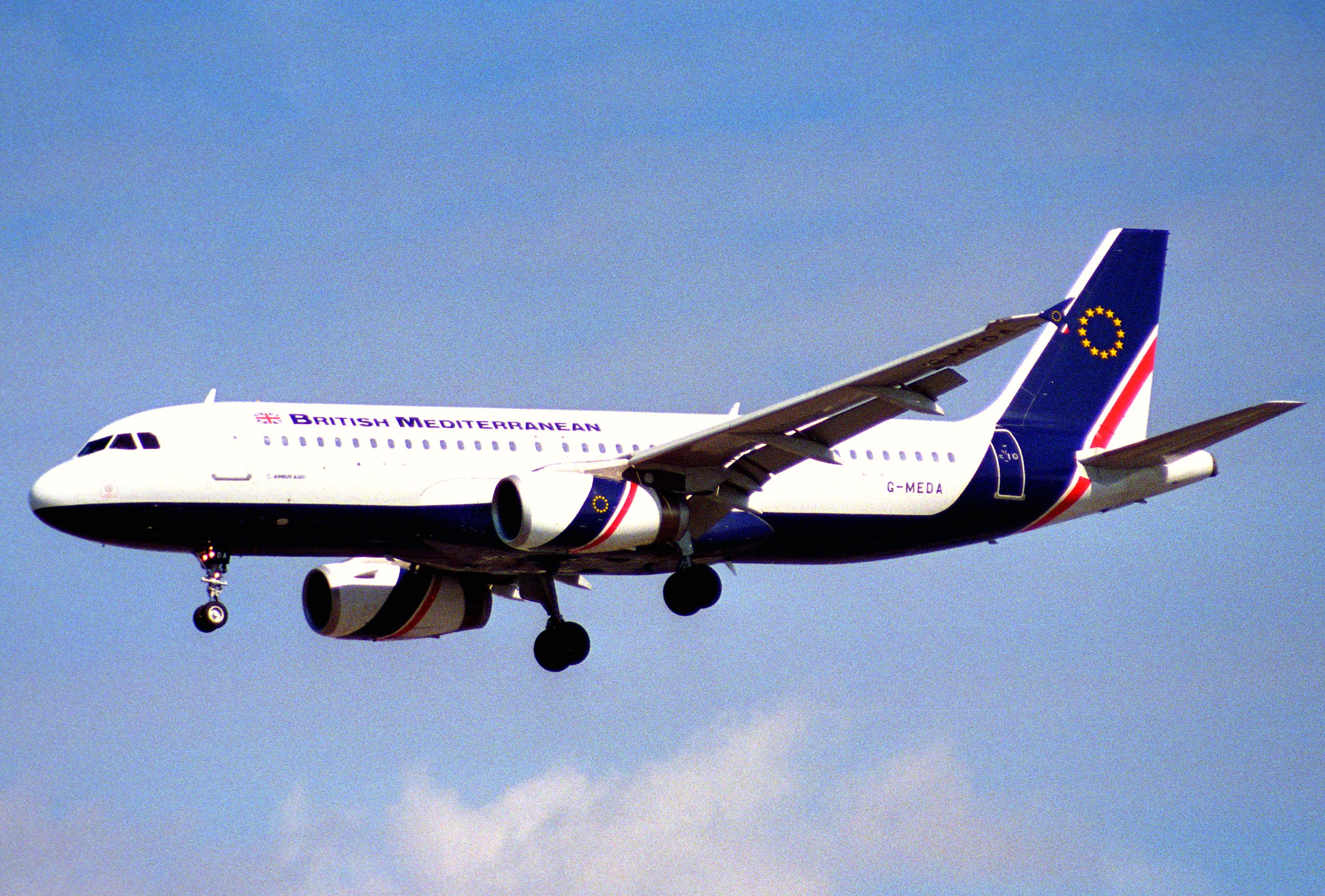 British Mediterranean Airways Airbus A320-231; G-MEDA@LHR;04.04.1997